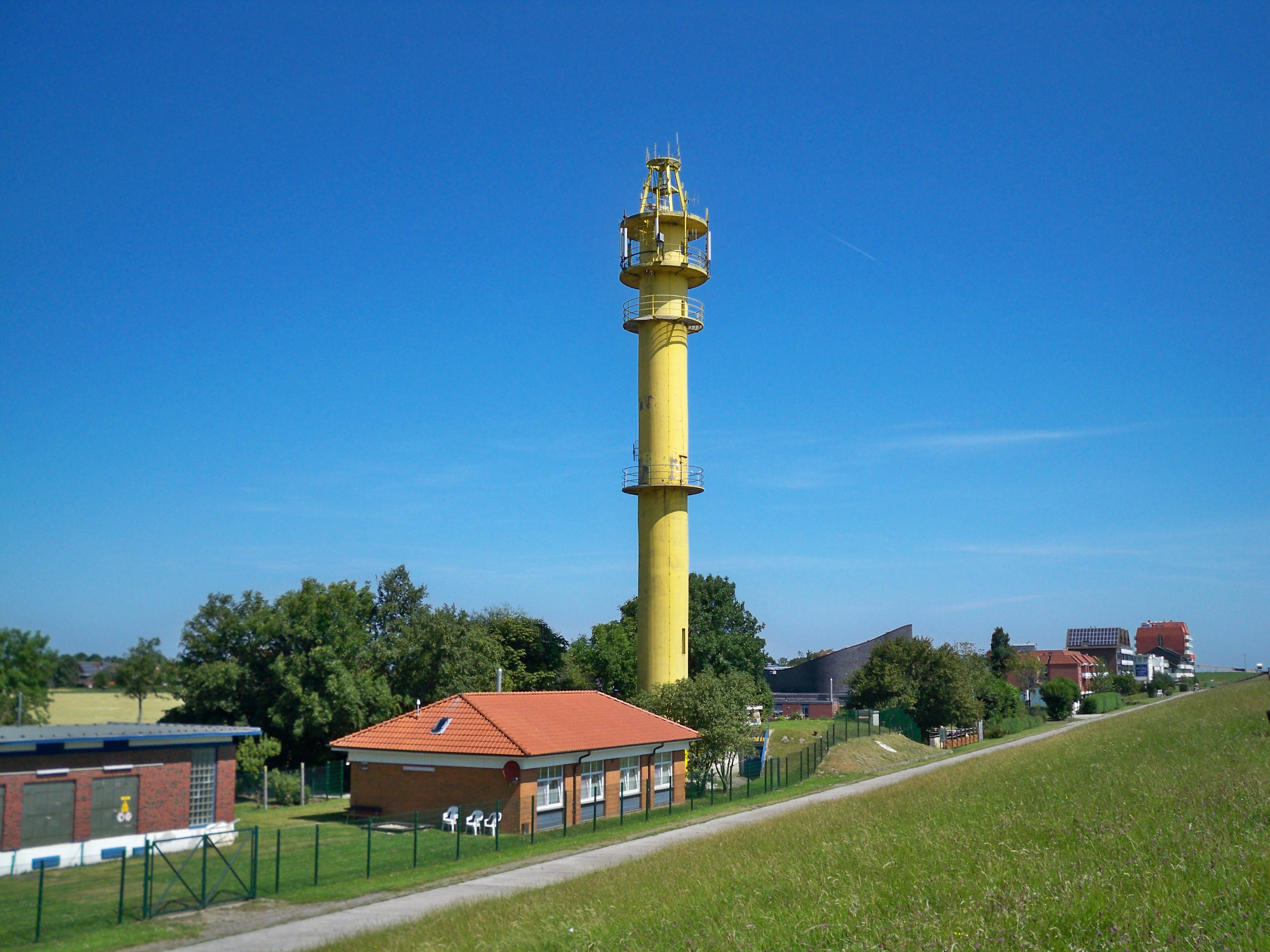 Former range rear light Schillig, now used as radio tower